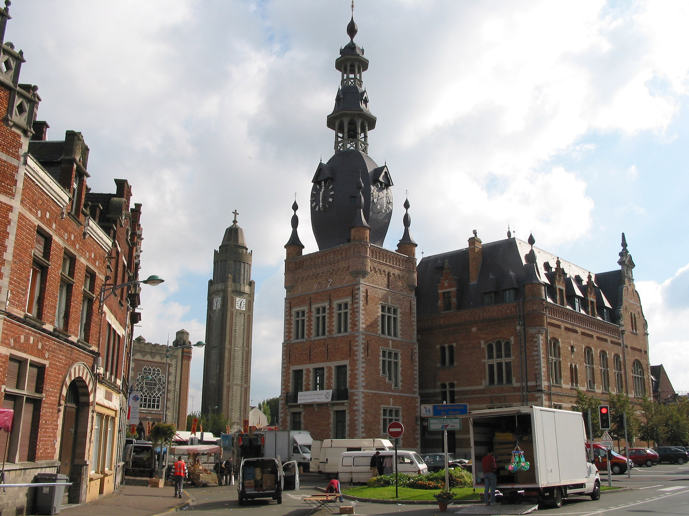 Comines, Nord (France), the church of St. Chrysole (1925), the town hall and the belfry (1927 - Architect: Louis-Marie Cordonnier.